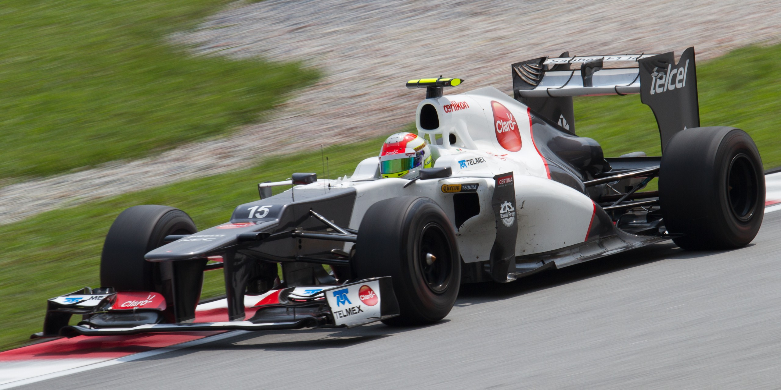 Formula One 2012 Rd.2 Malaysian GP: Sergio Pérez (Sauber) during the first practice session on Friday.